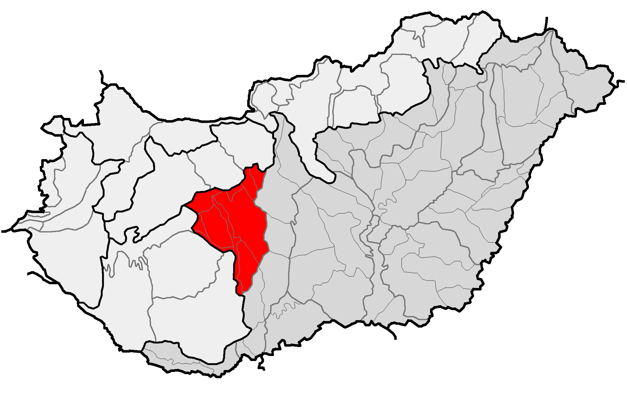 Location of geographical mesoregion of Mezőföld (red) and macroregion of Alföld (gray) within subdivisions of Hungary.